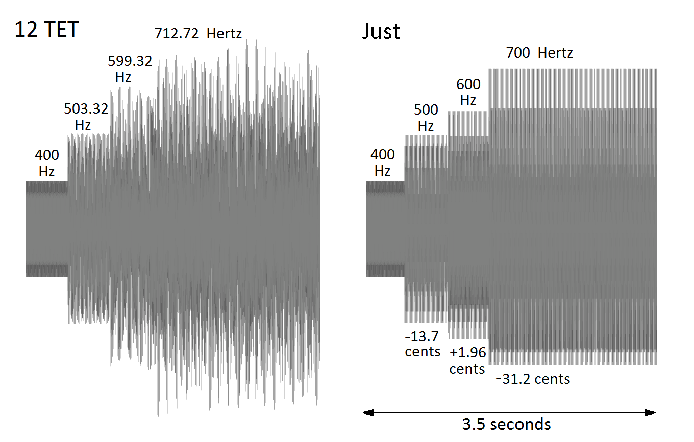 Comparison of the barbershop seventh chord using the Audacity (audio editor) to generate the 12TET and the natural 4-5-6-7 versions of the chord. See also this ogg file